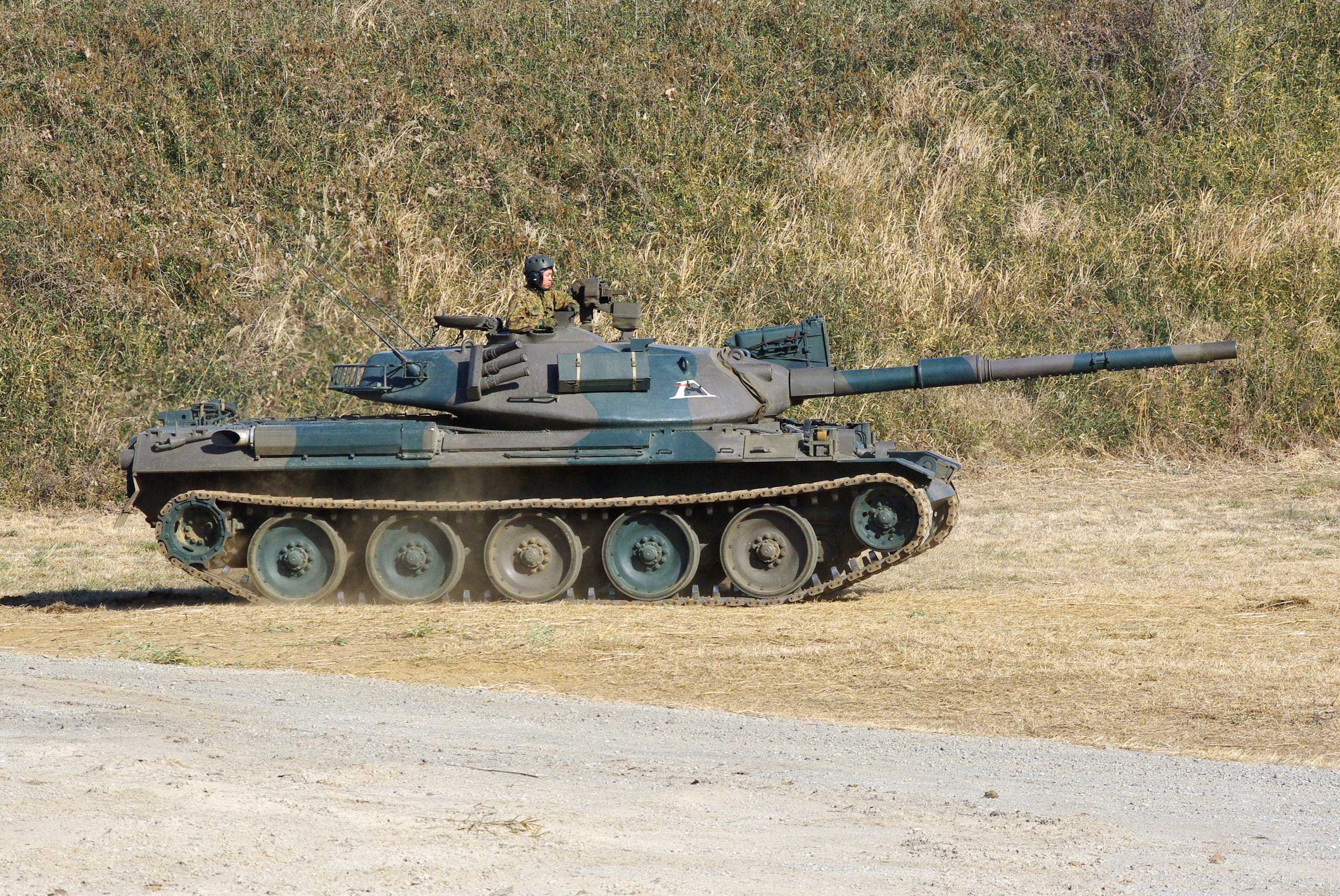 JGSDF Type74 Tank,1st Tank Btn..Taken by Los688,in Narashino,Japan,at 08-Jan-2012,JGSDF 1st Airborne Brigade 2012 first drop manuver.PD-self ja:74式戦車 2012年01月08日、第1戦車大隊。習志野演習場で撮影。